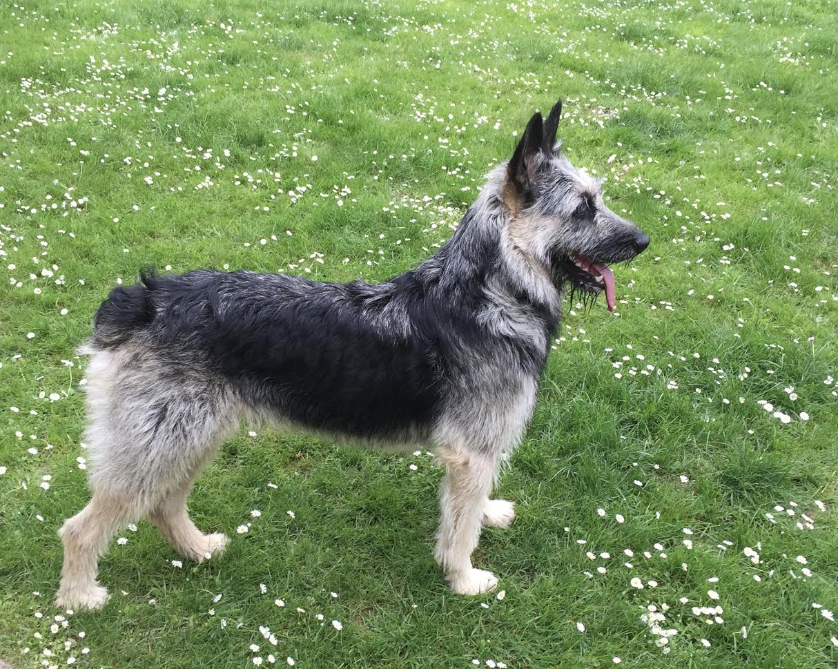 Dog Bouvier des Ardennes